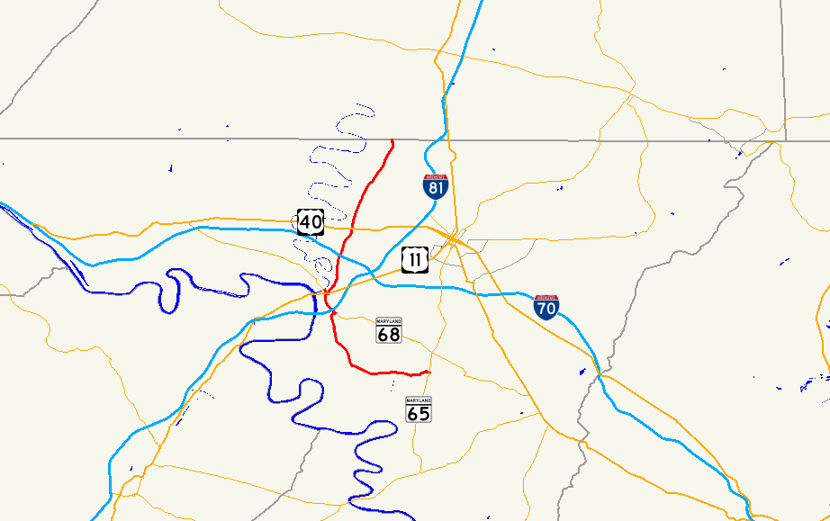 Map of Maryland Route 63